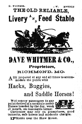 David Whitmer & Co., Livery and Feed Stable Advertisement in the Richmond Conservator.